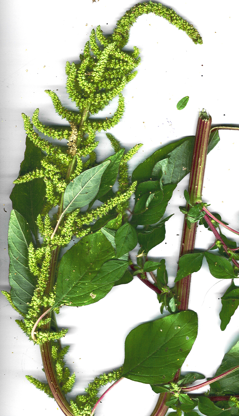 Amaranthus dubius (plant). Location: Maui, Puu o Kali